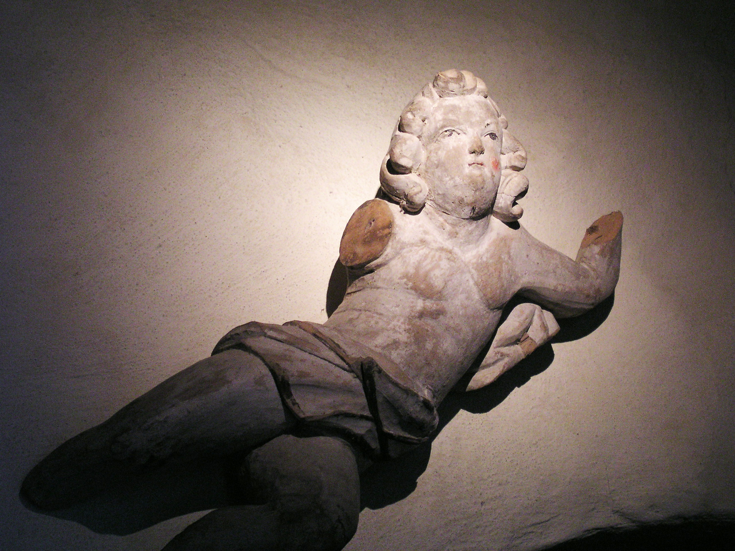 Angel from early modern times. Vreta kloster. Museum in the church. The photo was taken by Håkan Svensson (Xauxa) the 28th September 2003.